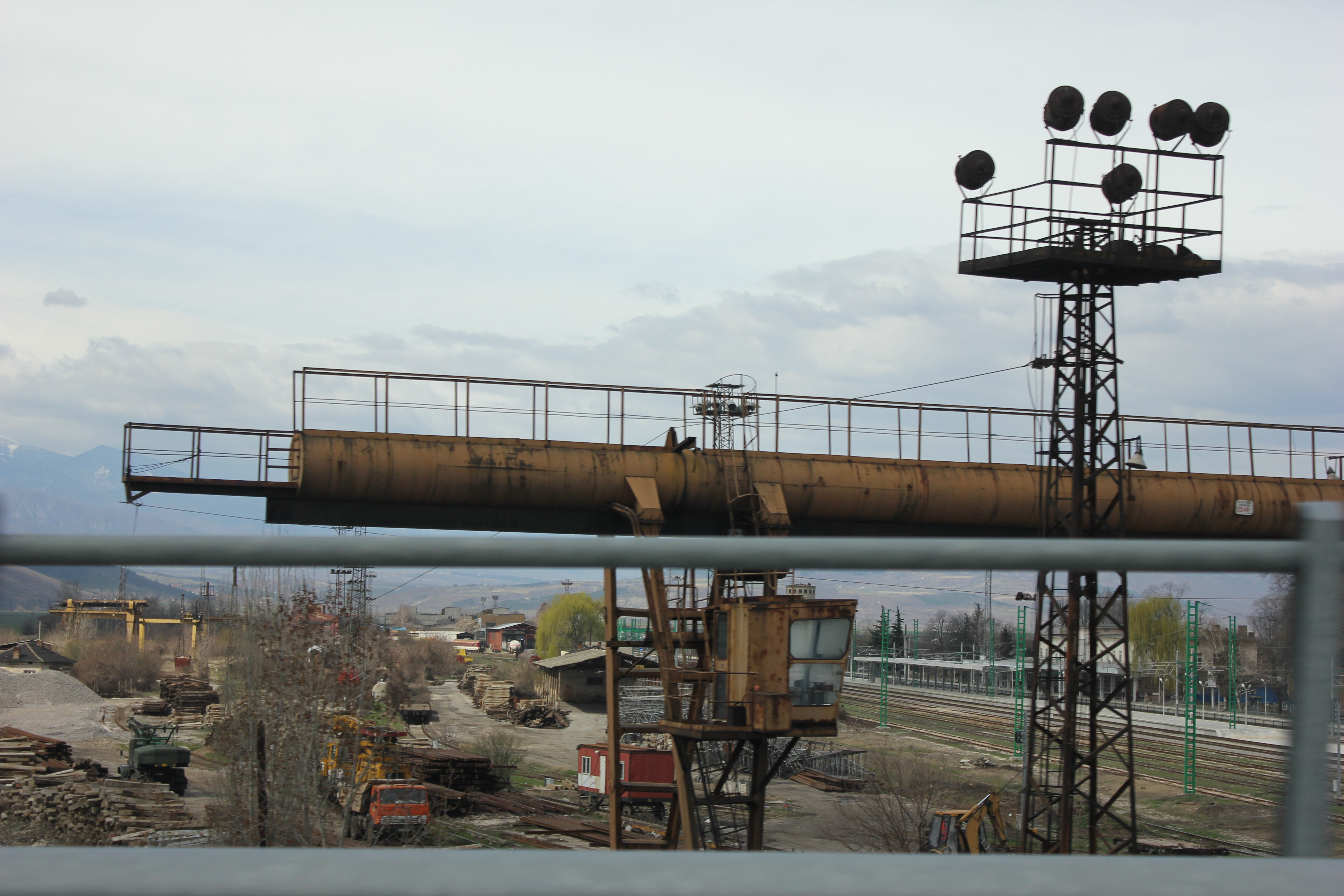 Septemvri Railway Station